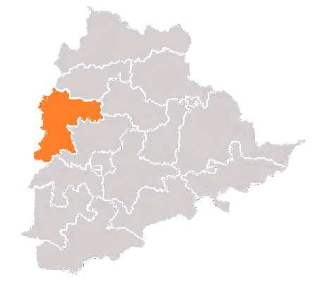 Map of the Indian Loksabha constituency of Zahirabad, Telangana